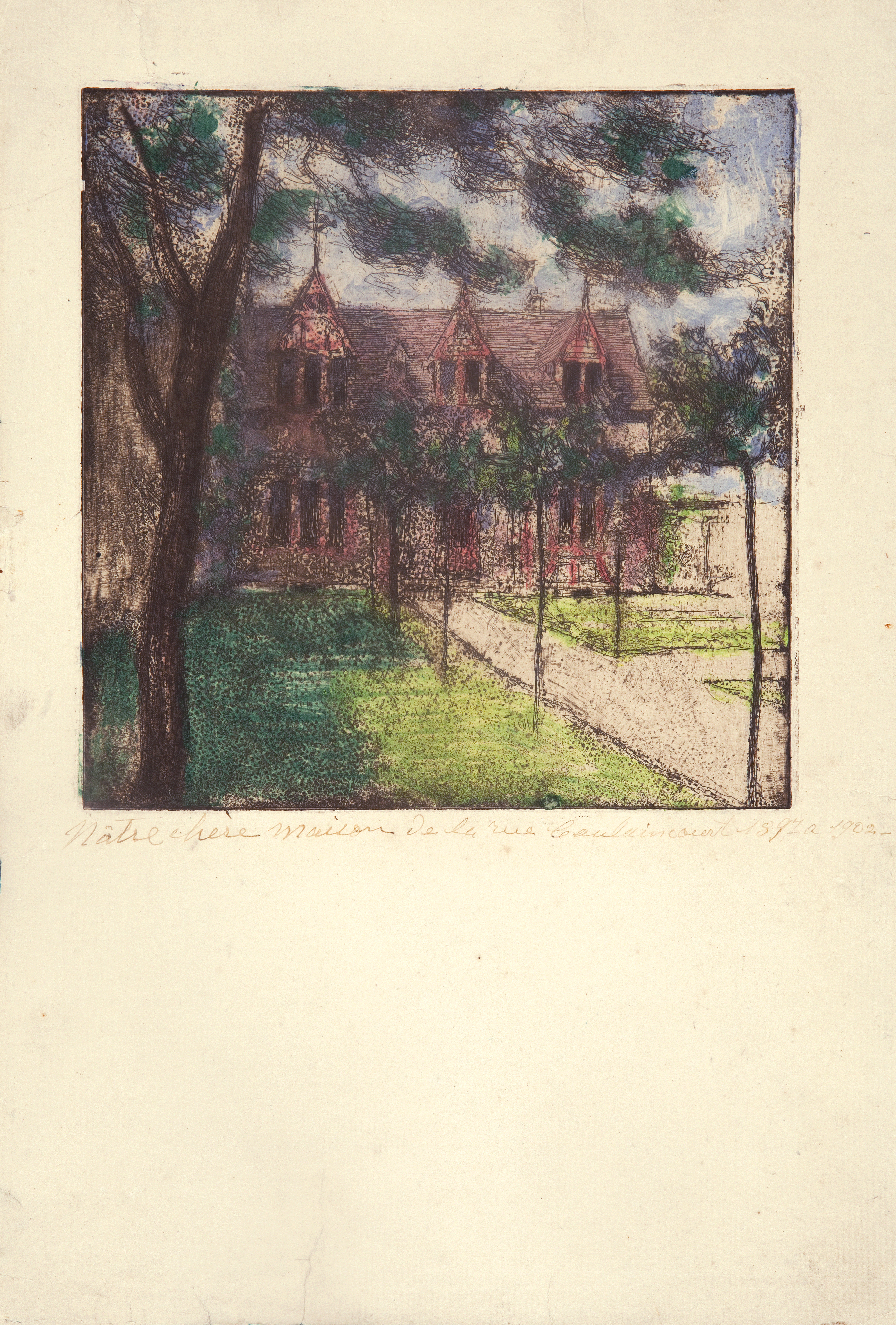 Annotated by Marguerite Müller, Alfredo's wife. An unique proof, found in their wedding Bible. Alfredo and Marguerite Müller were living on the ground floor, above the appartement of Théophile Alexandre Steinlen, family and cats, who had the view on rue Lamarck.